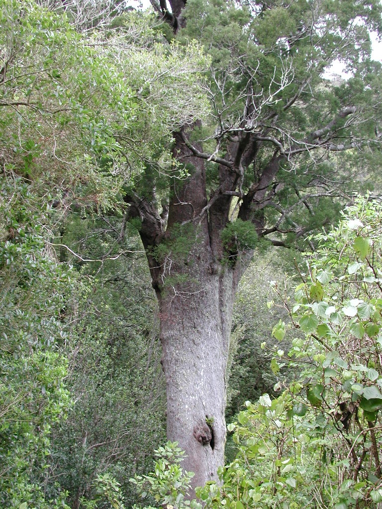 Mareikura (Noble Lady), the oldest known matai tree at approx. 2000 years old - in Happy Valley, near Nelson